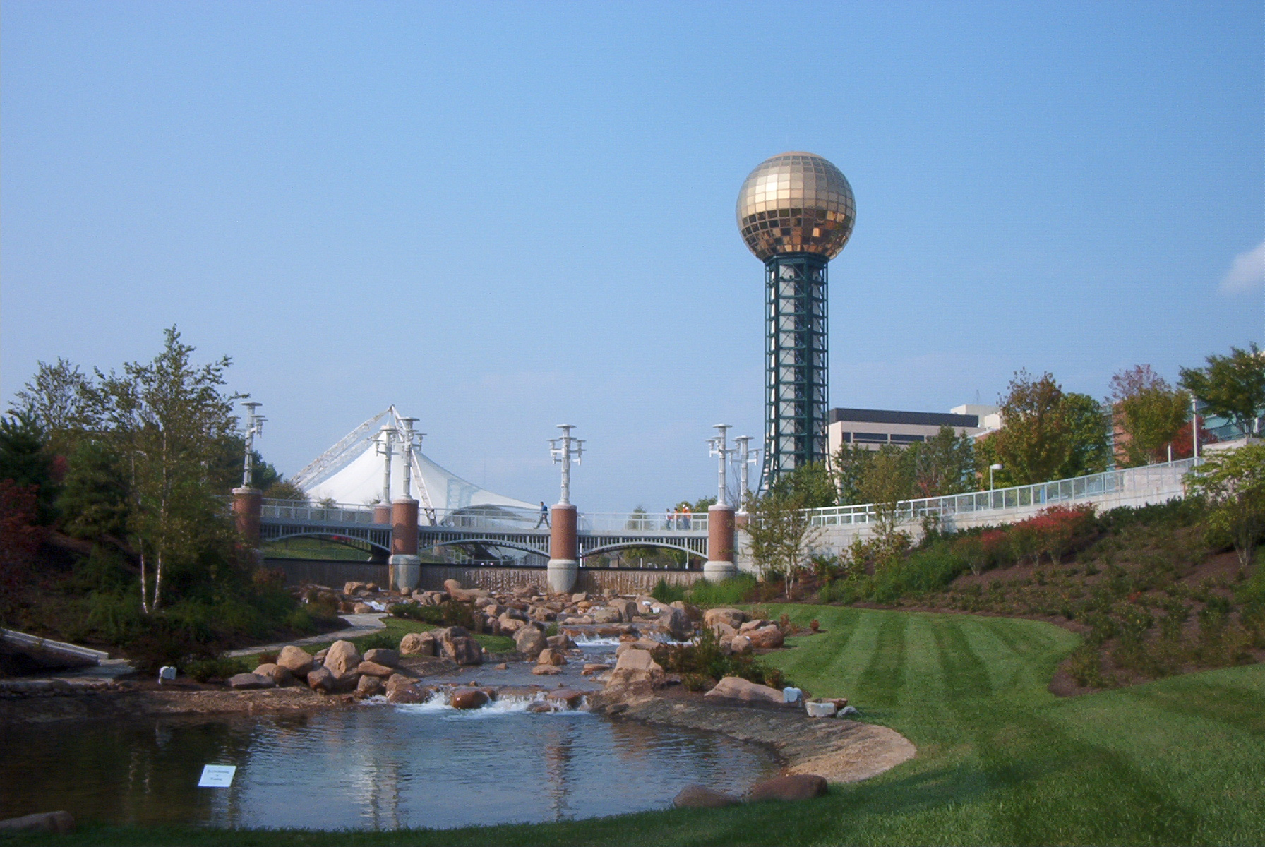 Description: The Sunsphere, built for the World's Fair, in Knoxville, Tennessee. Source: self-made Photographer: J.Glover with a HP Photosmart 612 on October 02, 2004. The Sunsphere in Knoxville, Tennessee.